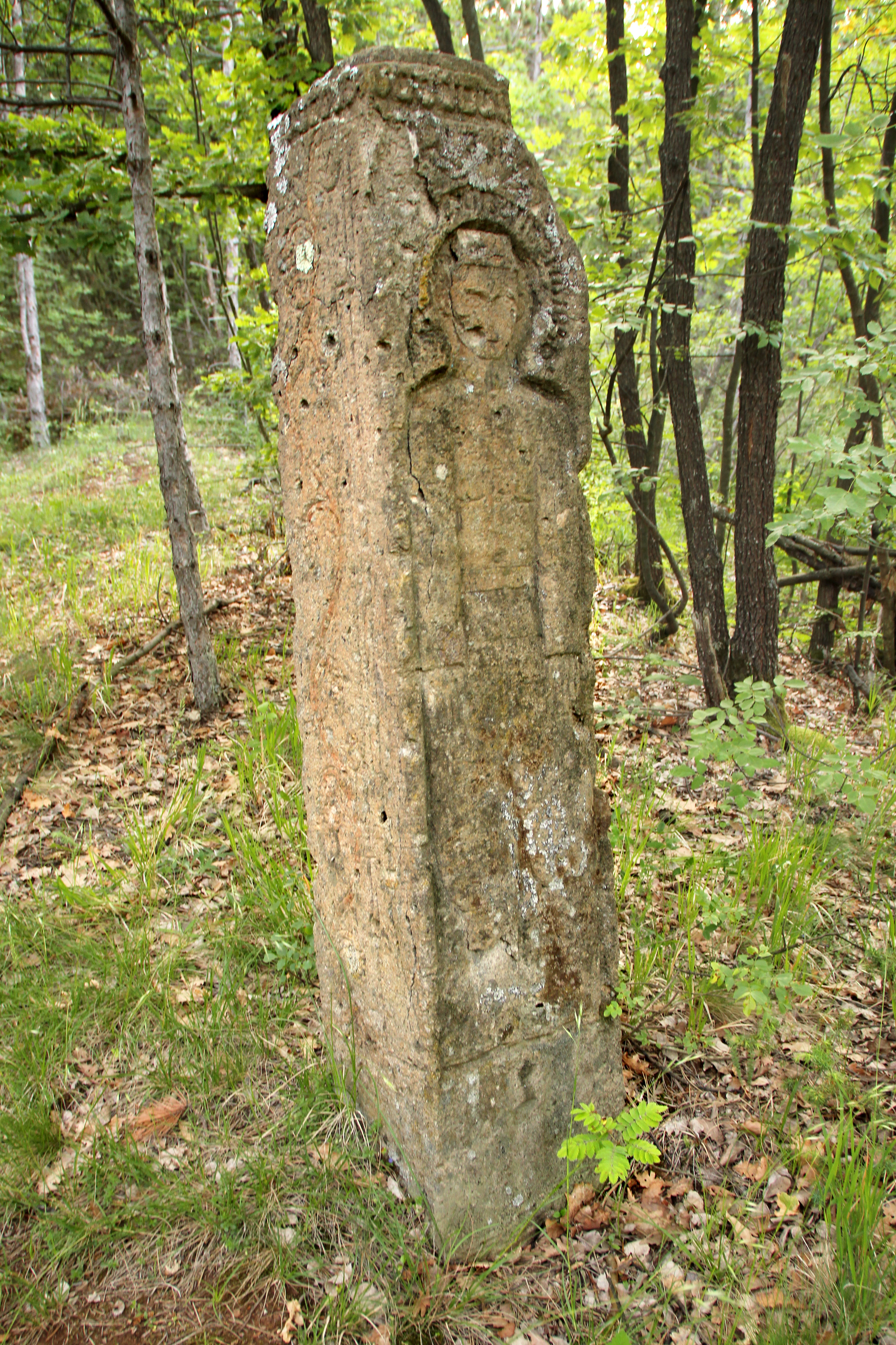 Double roadside tombstone erected in memory of Josip and Milan Kovacevic. It is located on the location Mramor in the village of Ljutovnica (the municipality of Gornji Milanovac), Serbia.